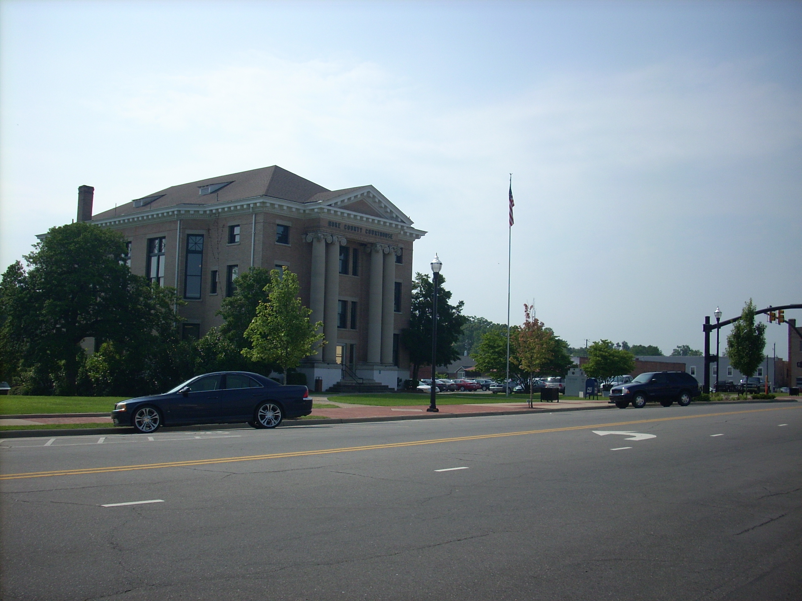 Hoke County Courthouse in Raeford, North Carolina